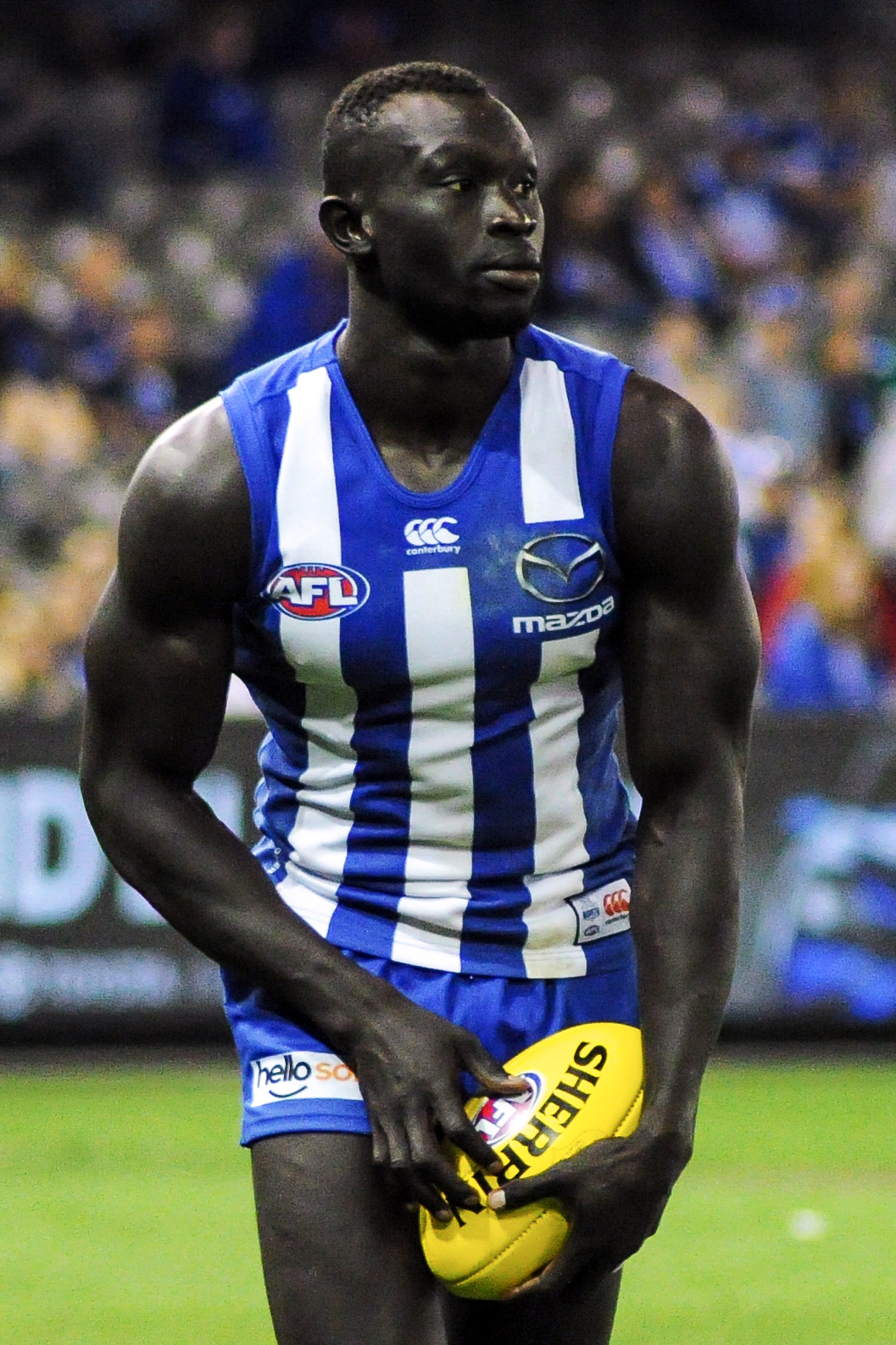 Majak Daw during the AFL round six match between North Melbourne and Port Adelaide on Saturday, 28 April 2018 at Etihad Stadium in Melbourne, Victoria.